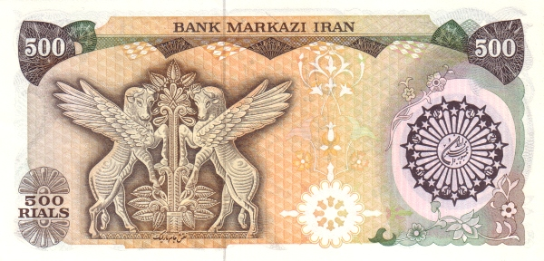 500 IRR (1981 issue)